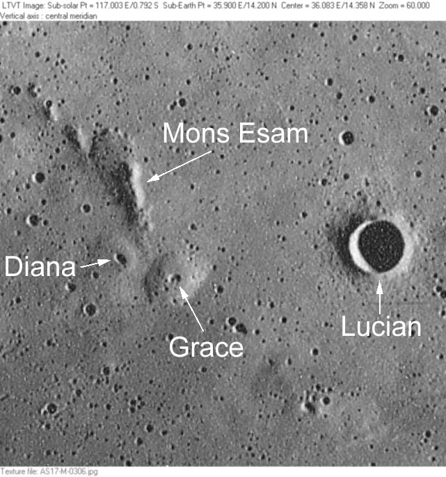 Craters Lucian, Diana and Grace with Mons Esam. Detail of Apollo metric image AS17-M-0306 from LPI website, remapped to north-up aerial view by LTVT.